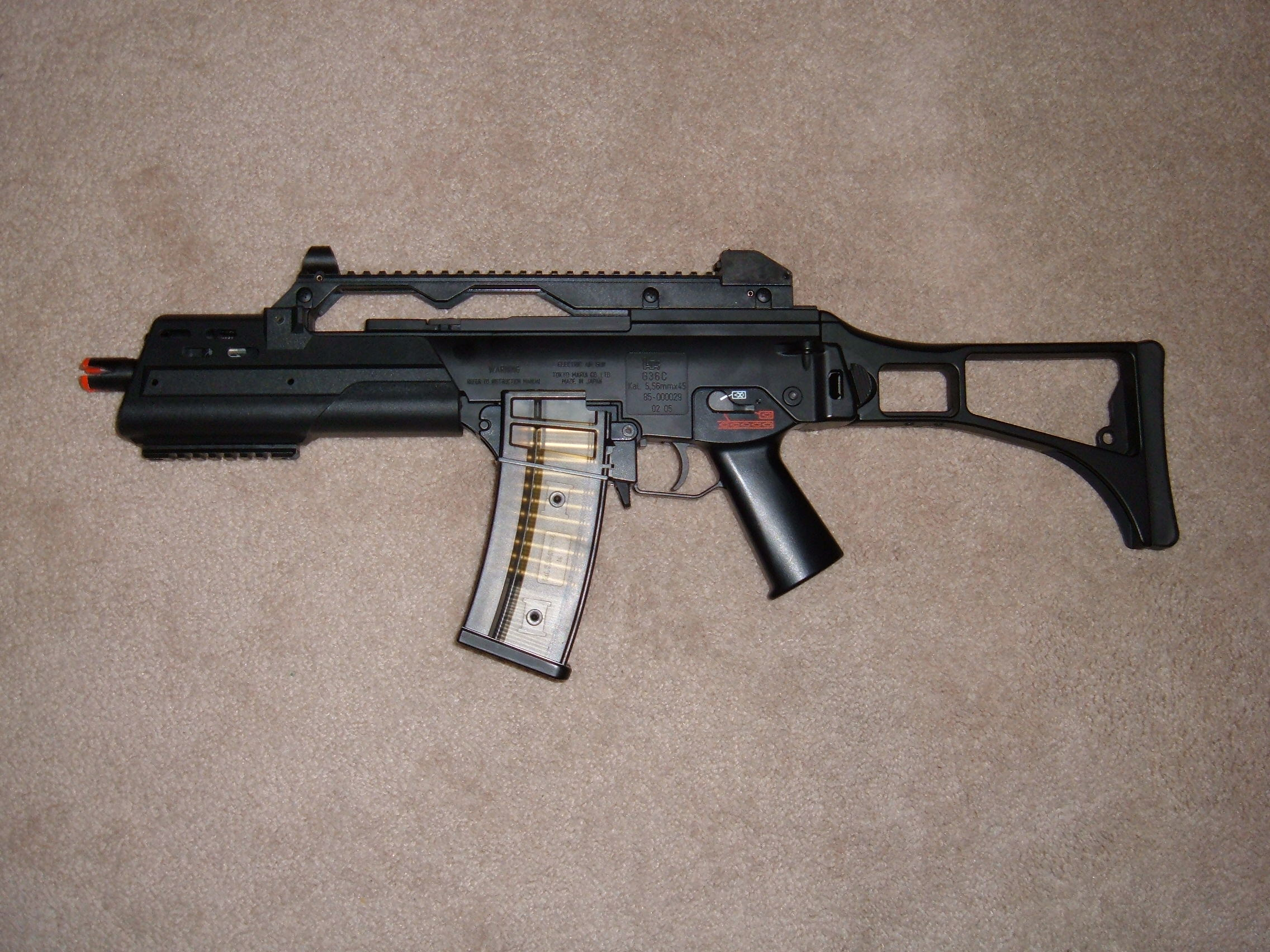 An airsoft replica of an H&K G36C assault rifle with the stock extended.